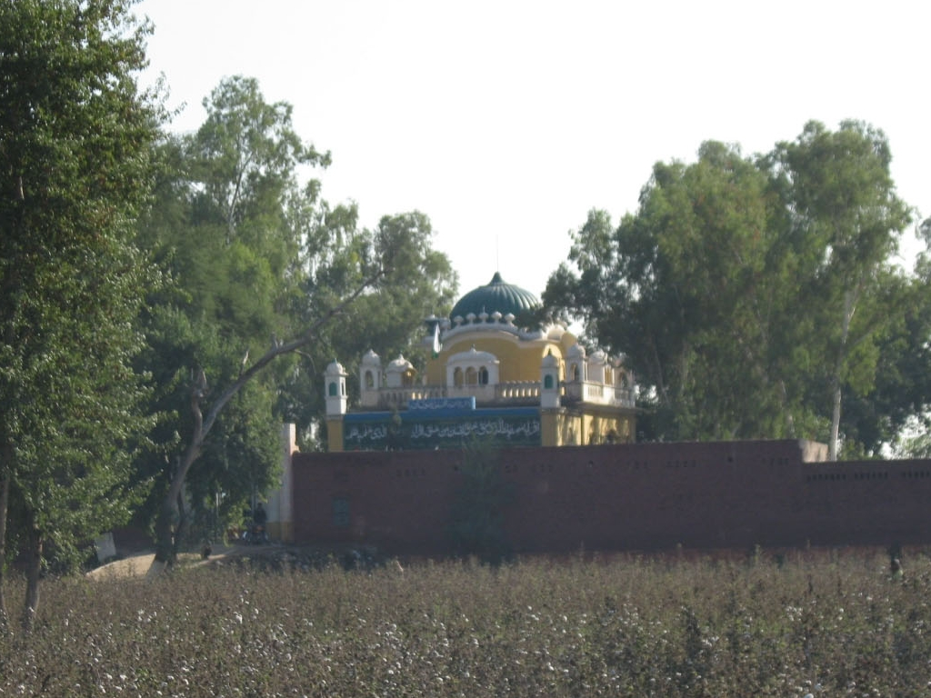 Gurdwara Makhdoom Pur Pahoran in Punjab, Pakistan